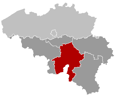 Location of the province Namur (Belgium).